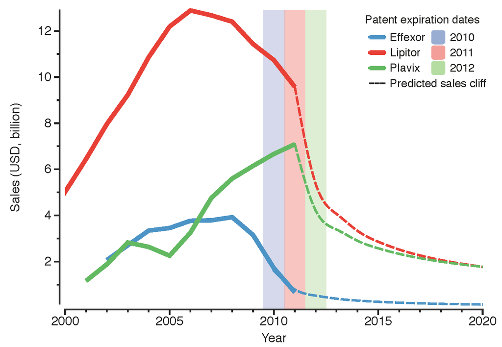 Effexor, Lipitor and Plavix sales cliff